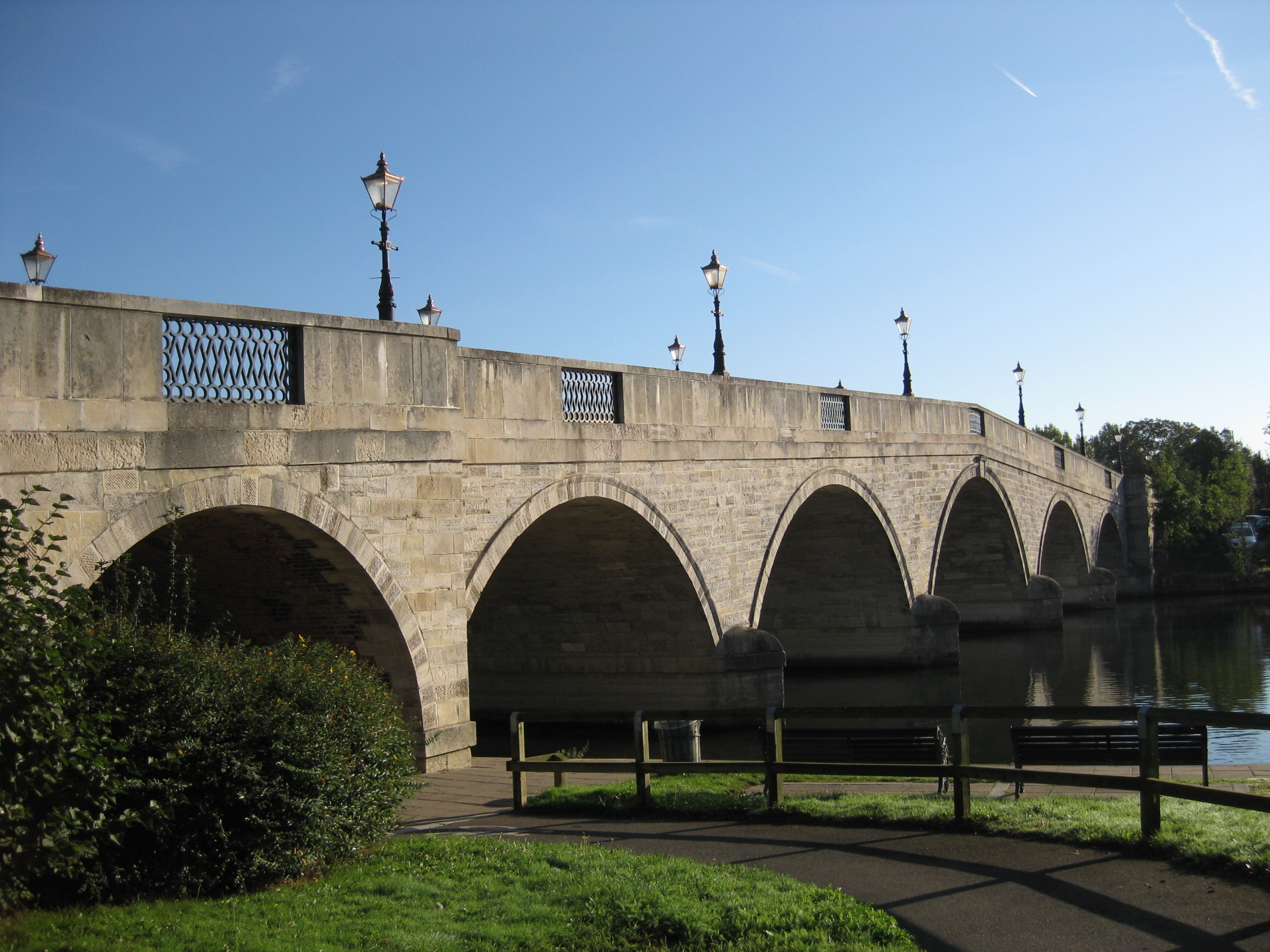 Chertsey Bridge between Chertsey and Laleham across the River Thames. Showing street lamps.